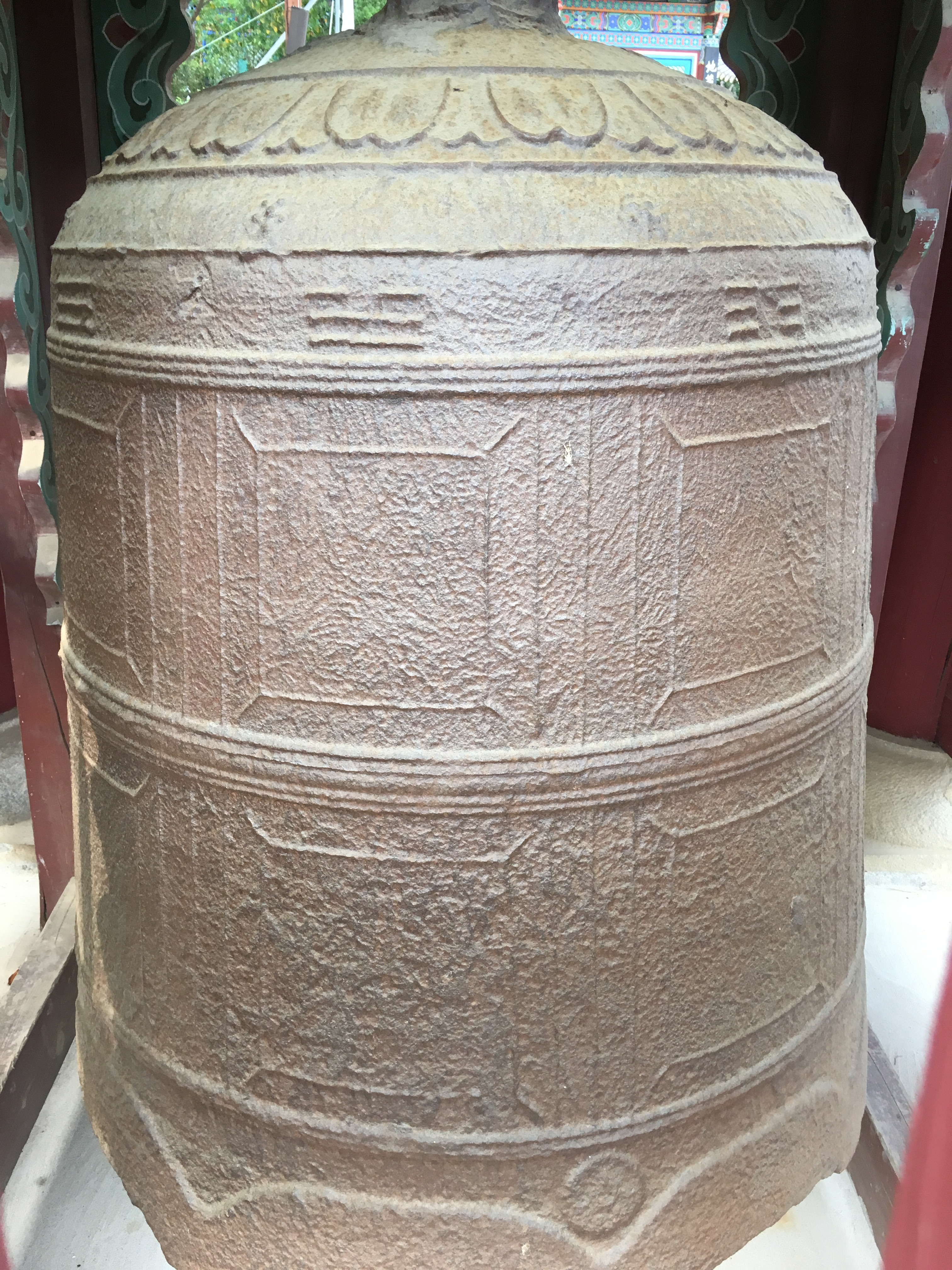 Jeondeungsa Beomjong(bell), Korean treasure No. 393